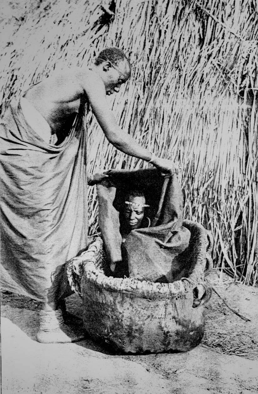 Muhumusa ("Sultanin Mumusa" in the Original), ca. 1904